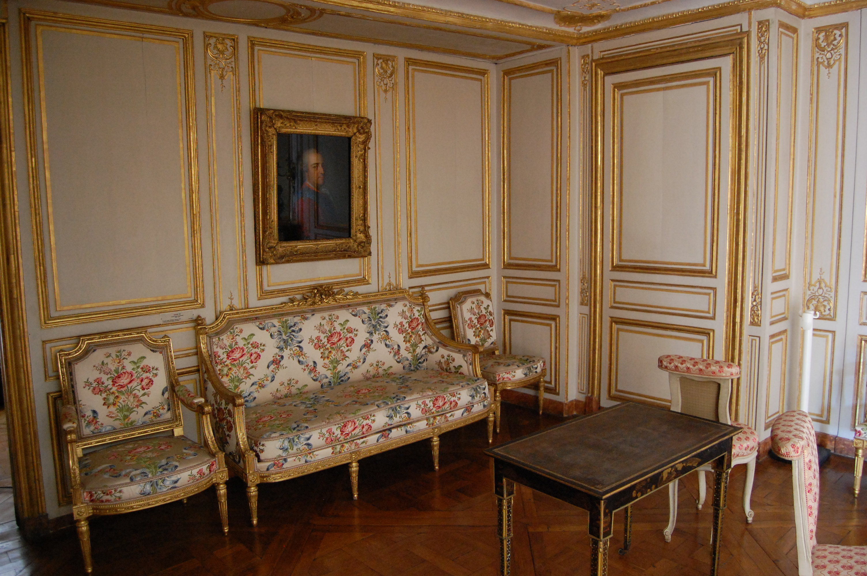 Antechamber of the apartement of madame Du Barry